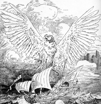 Roc destroying Sindbad's ship from